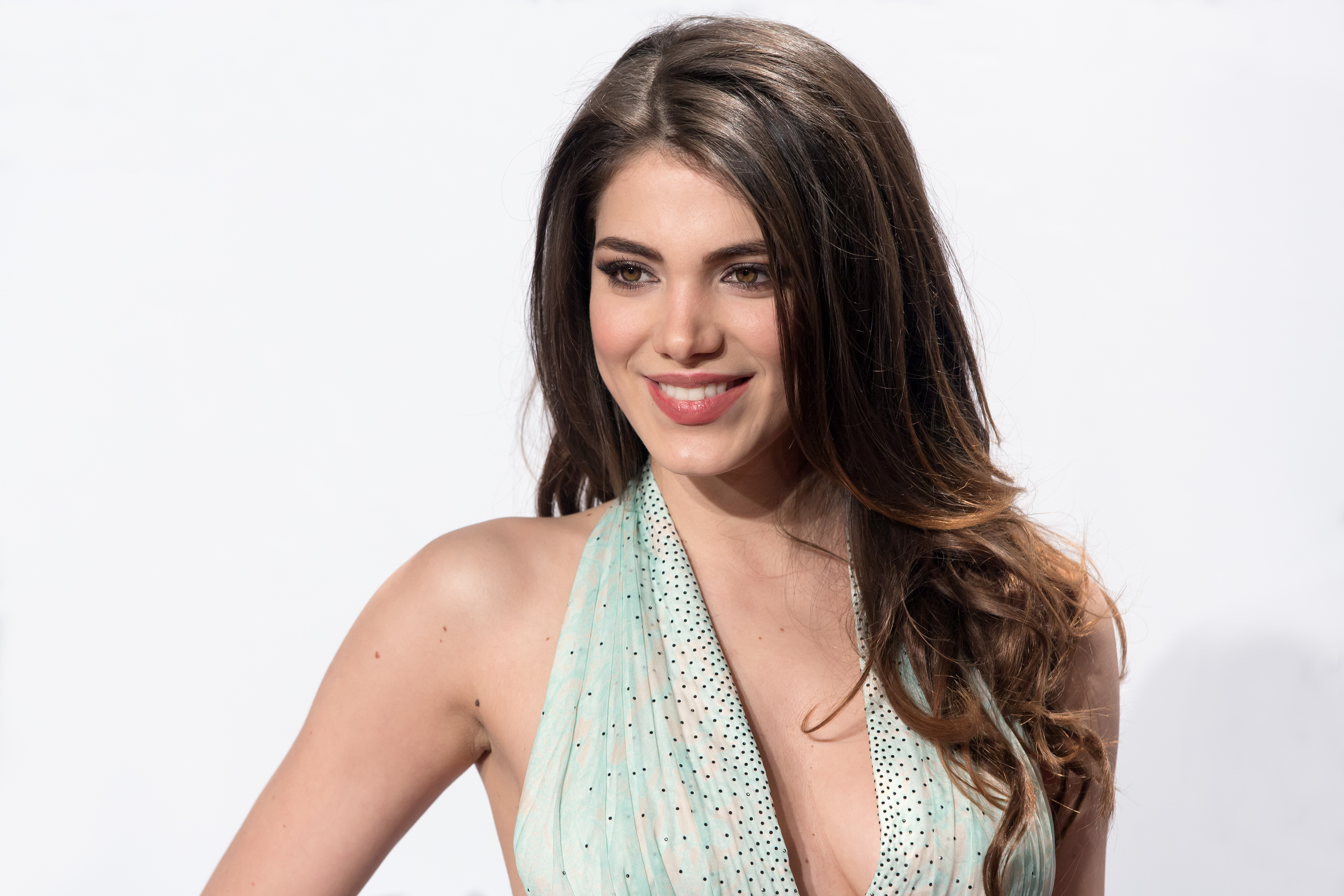 Amina Dagi on the red carpet of the Filmball Vienna at Rathaus, Vienna, Austria.